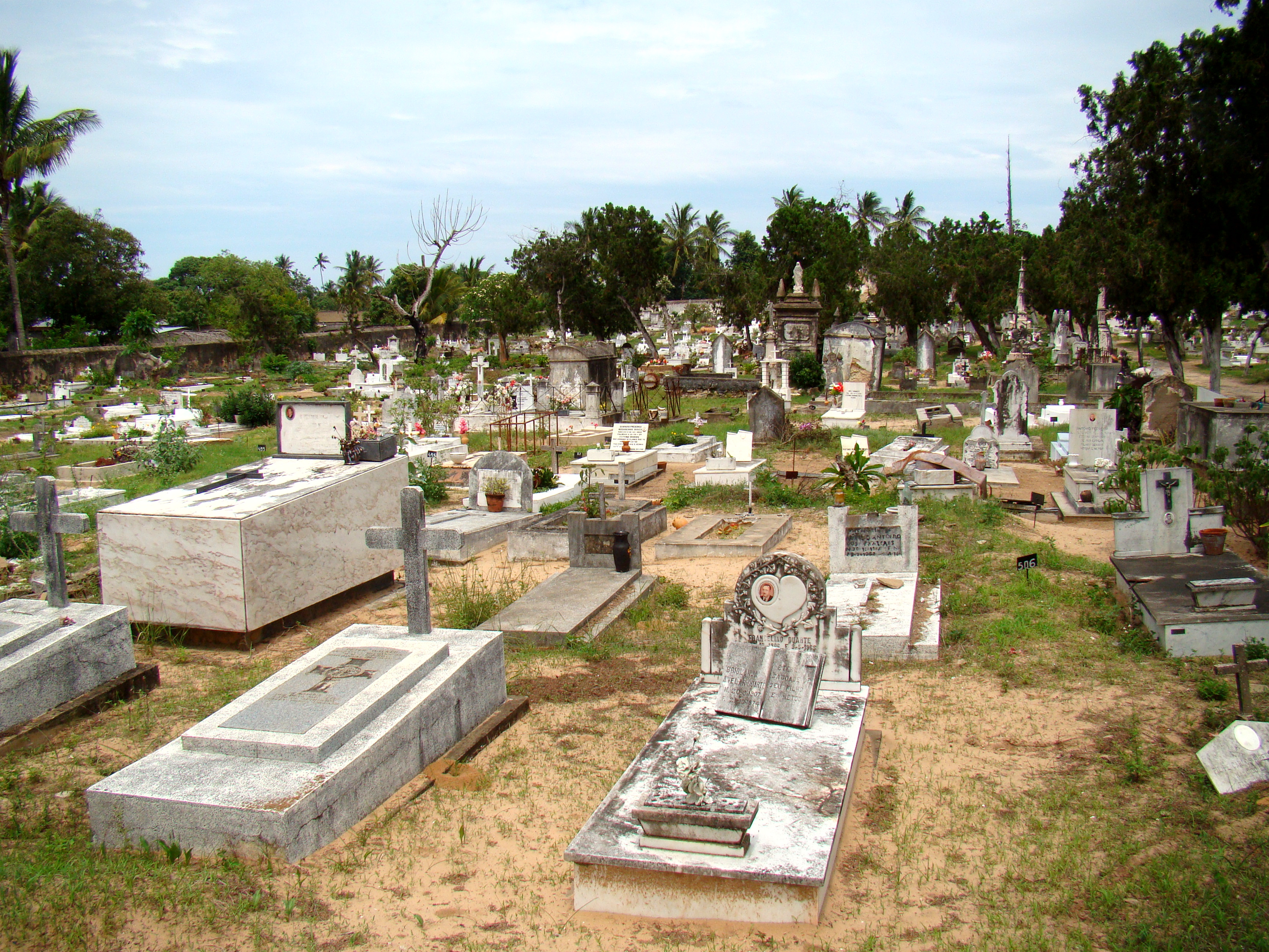 The old Portuguese cemetery in Inhambane, Mozambique.